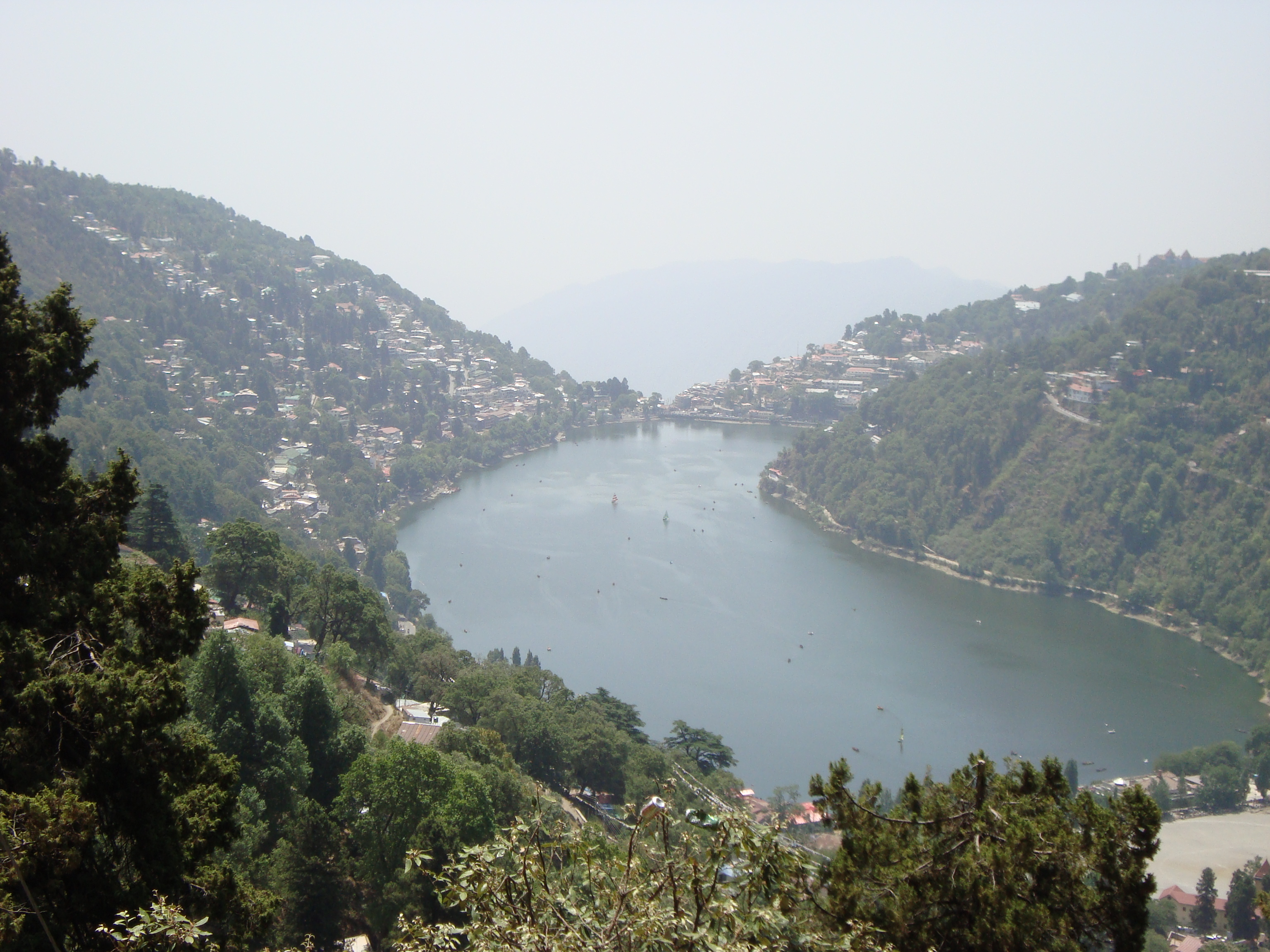 Image of Nainital, India.